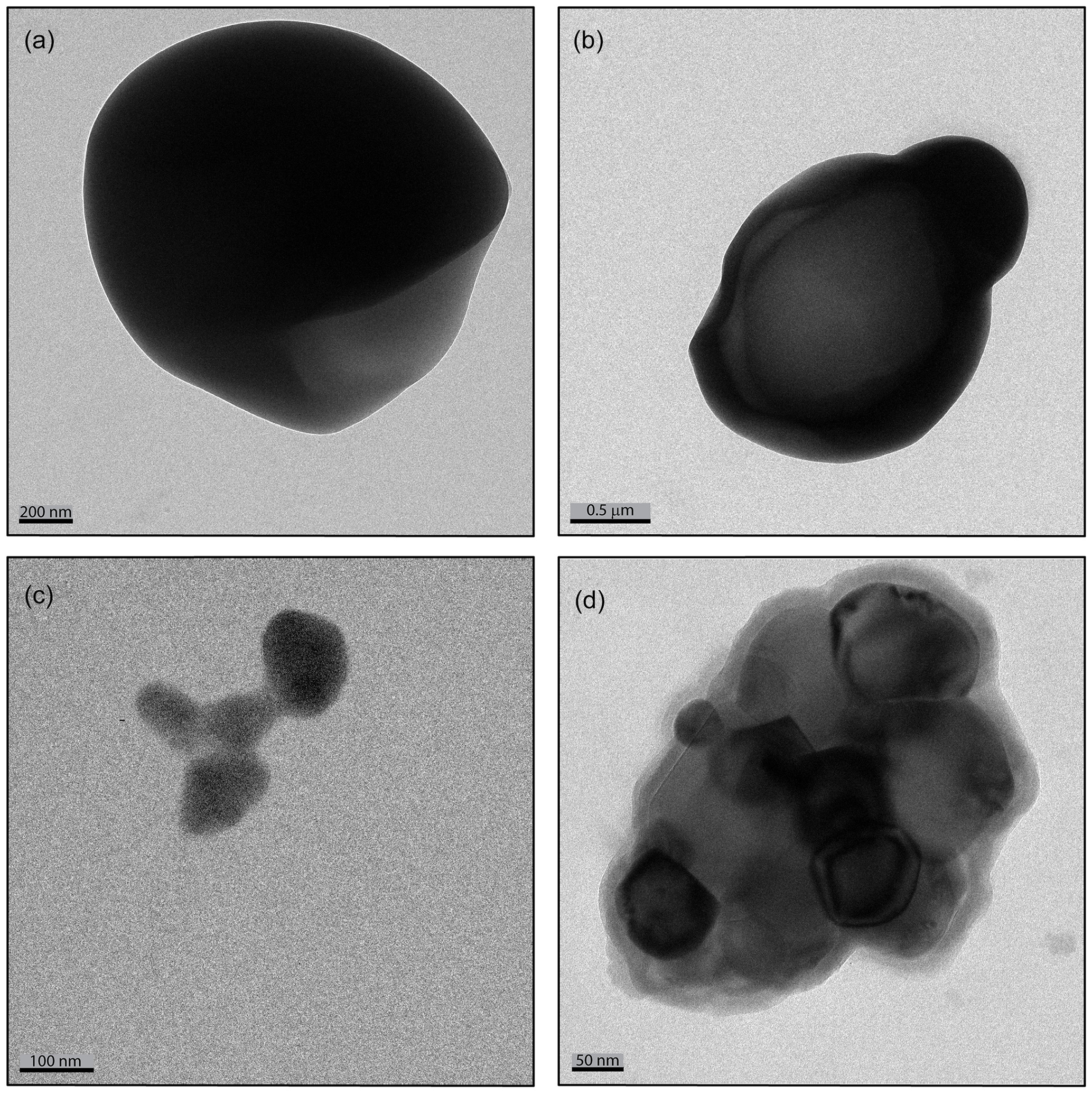 Transmission electron microscopy (TEM) images of typical organic carbon “tar balls”, occurring as spheres and agglomerates, emitted from smoldering combustion of Alaskan and Siberian peat samples. The internal structure of these particles was amorphous in nature. Electron dispersive spectroscopy (EDX) of tar balls shows that these particles consist primarily of carbon and oxygen with an average molar ratio between 6 and 7.